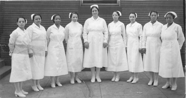 USA., Provident Hospital ward room, c. 1930